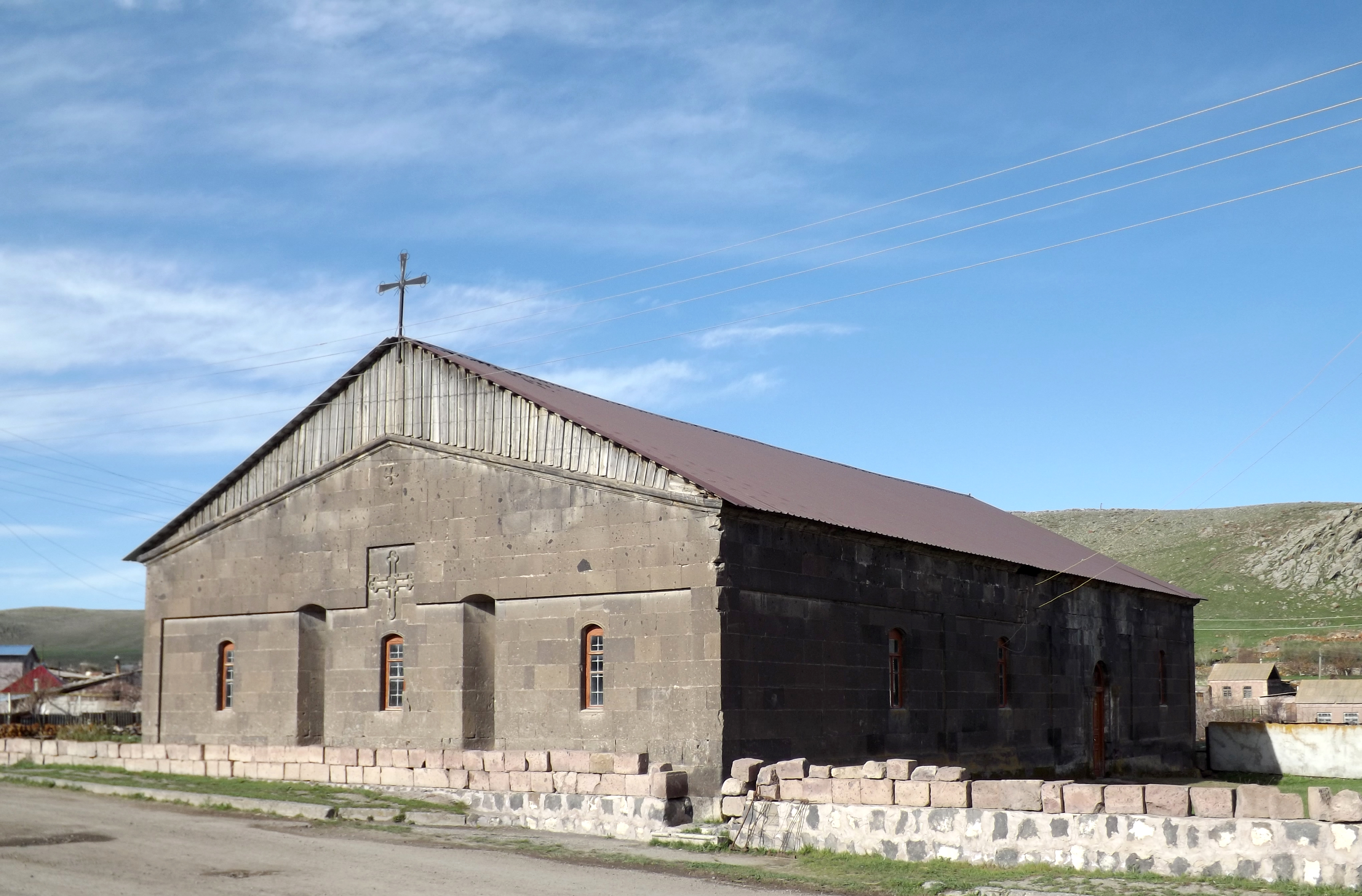 Church in Aygabac, province Shirak, Armenia